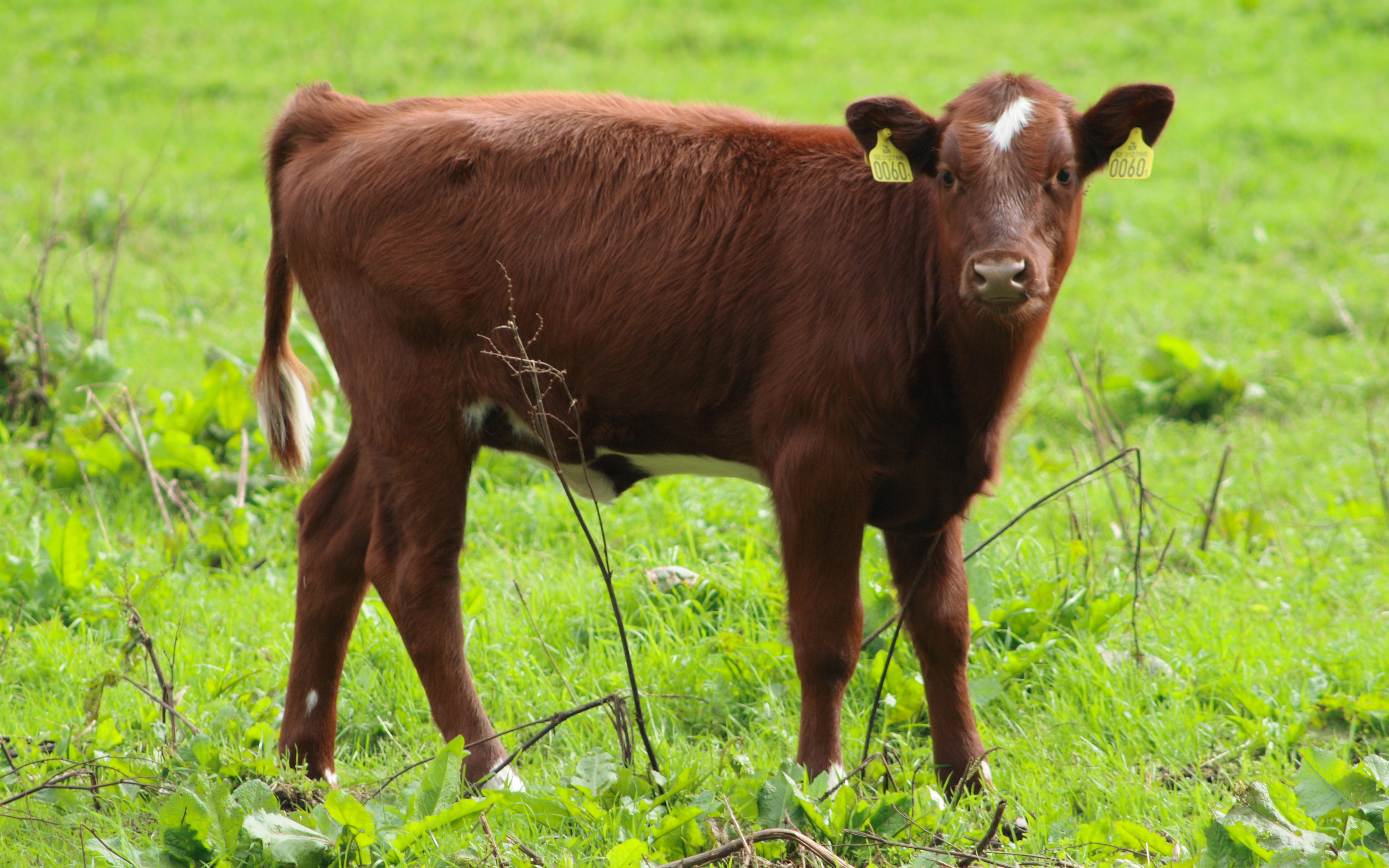 Väneko calf (Bos taurus), an ancient Swedish race, photographed at Skånes Djurpark in Sweden.